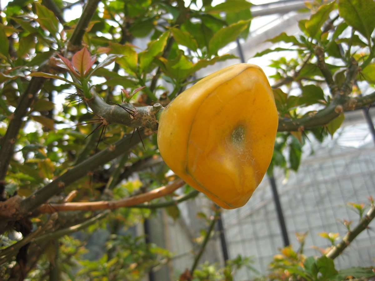 Photographed at the Queen Sirikit Botanic Garden (Chiang Mai Province, Thailand) in March